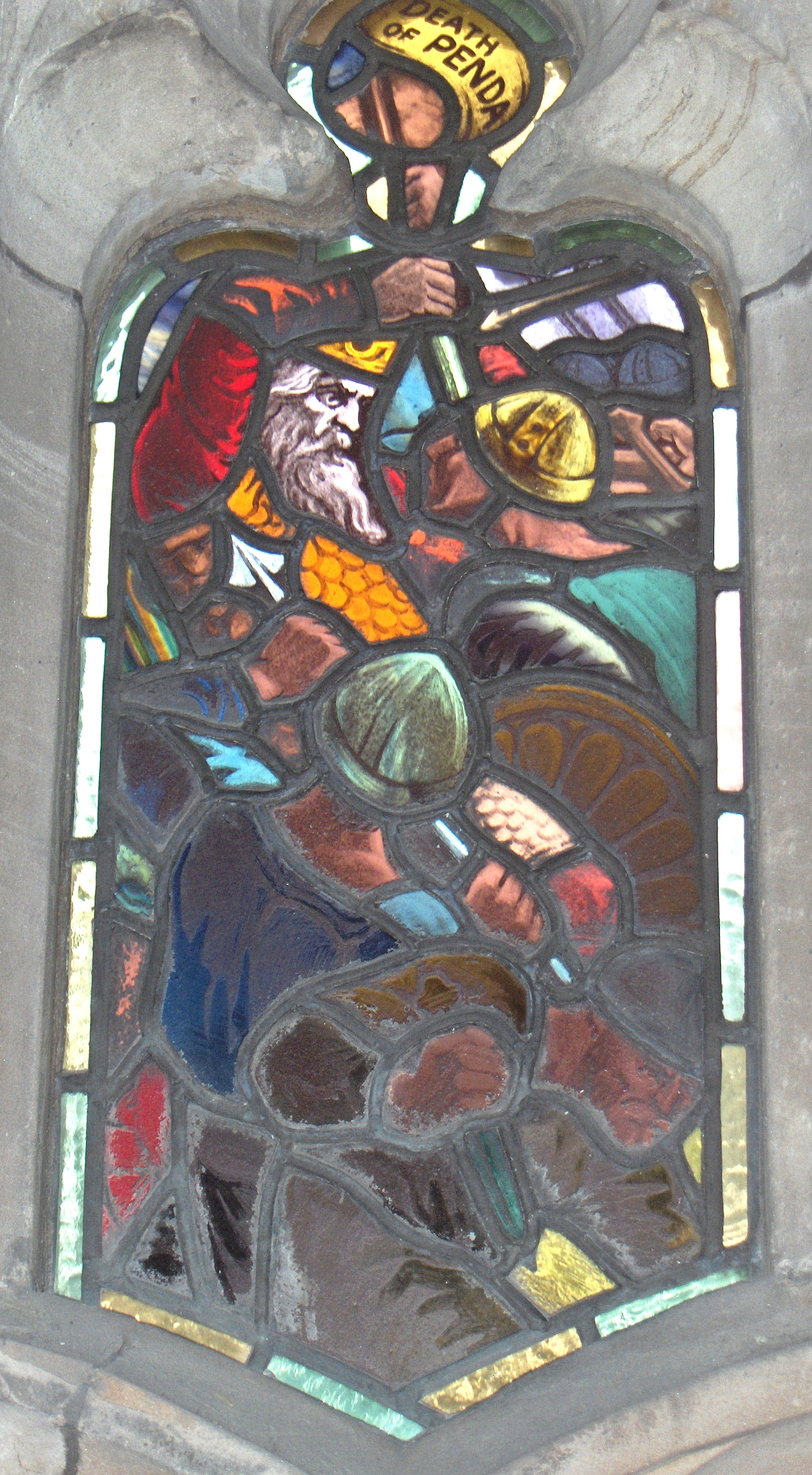 Stained glass window in the cloister of Worcester Cathedral representing the death of Penda of Mercia